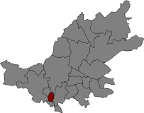 Location of la Masó in Alt Camp